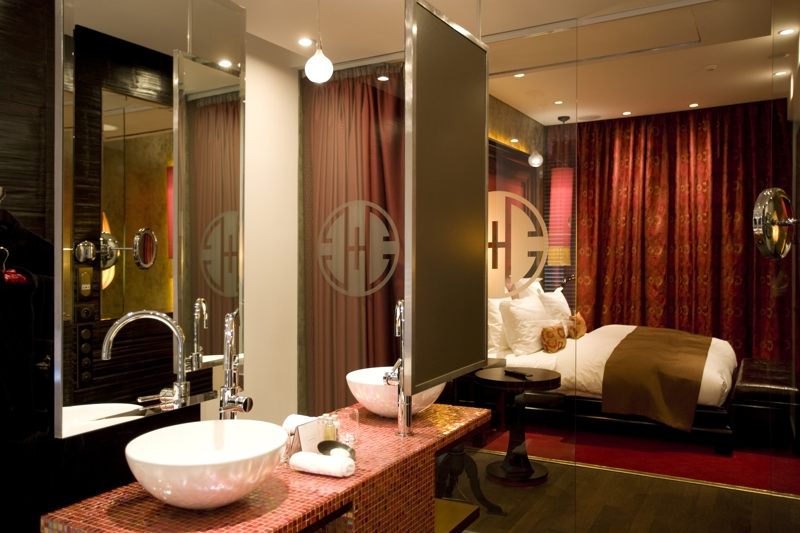 Buddha-Bar Hotel Prague